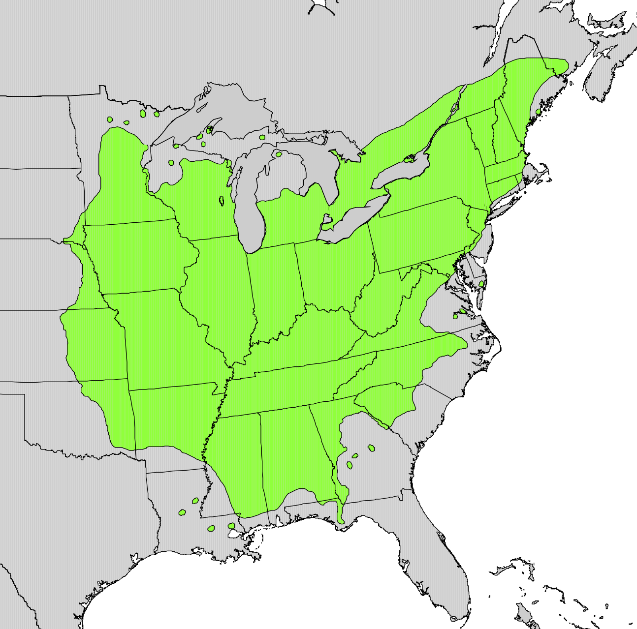 Range map of Acer saccharinum